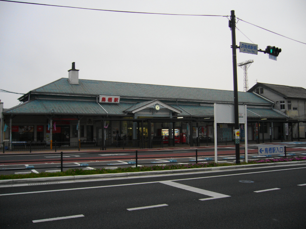 This photograph is Tosu Station in Saga Prefecture Tosu City in Japan.